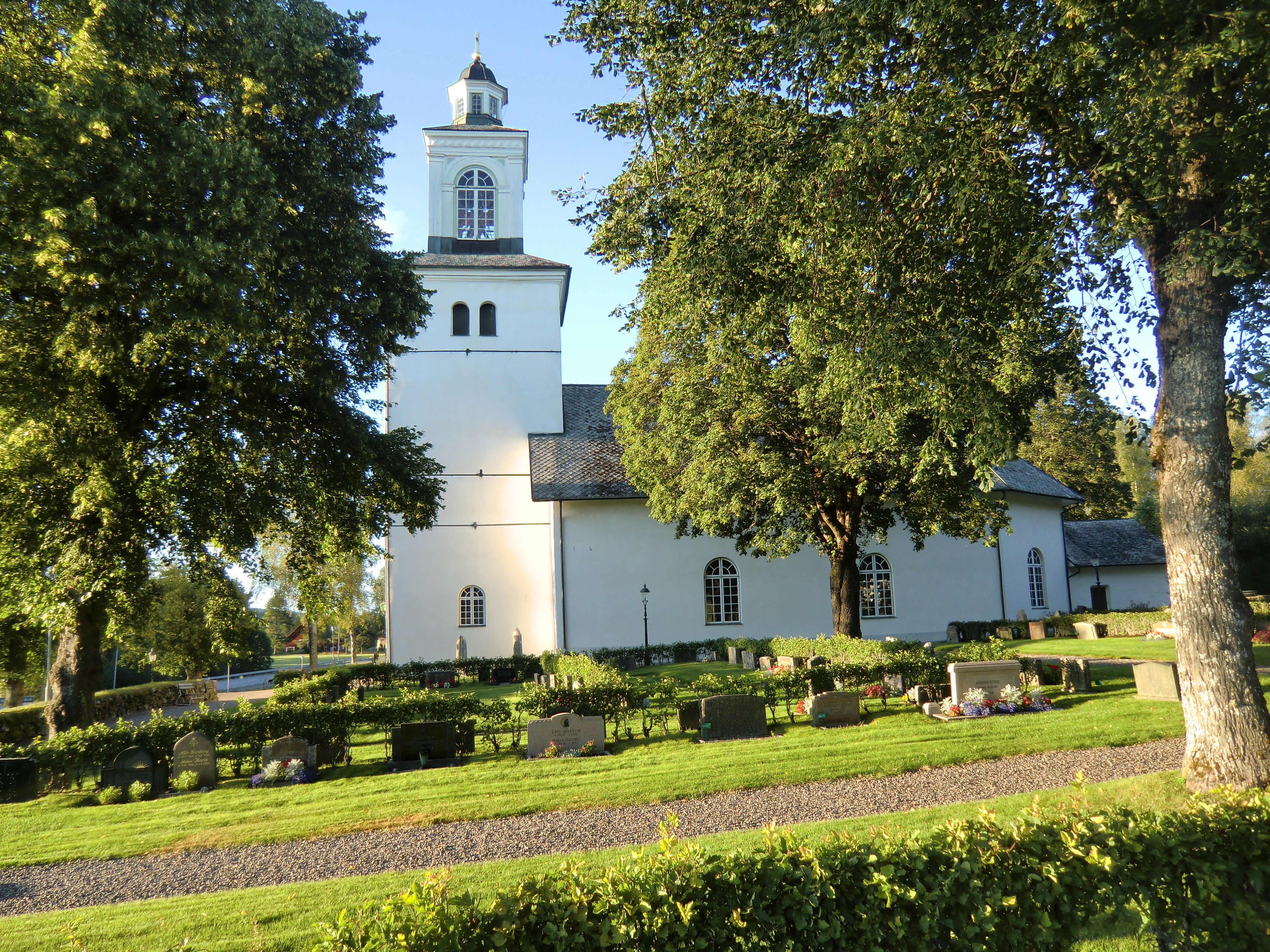 Järnskog church